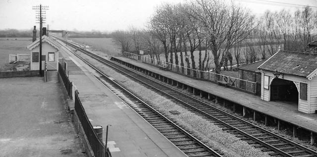 Brent Knoll Station. View southward, towards Taunton, Exeter etc.; ex-GWR Bristol - Taunton - Exeter main line. The station - 'miles from anywhere' - closed eventually 4/1/71. (The wide spacing of the lines is witness to the original 'broad gauge' of 7ft. 1¼in.).